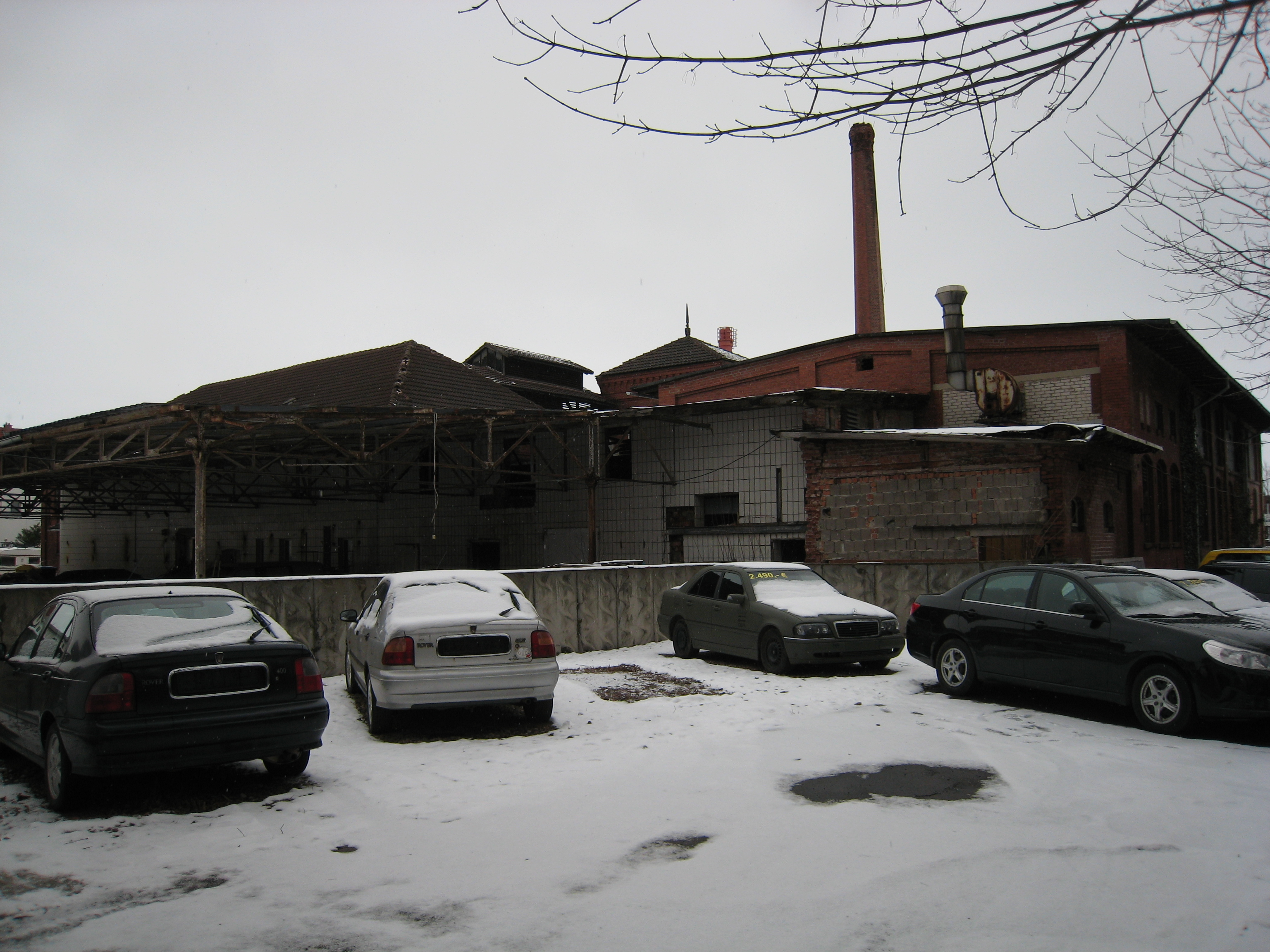 Former slaughterhouse in Arnstadt, Dammweg